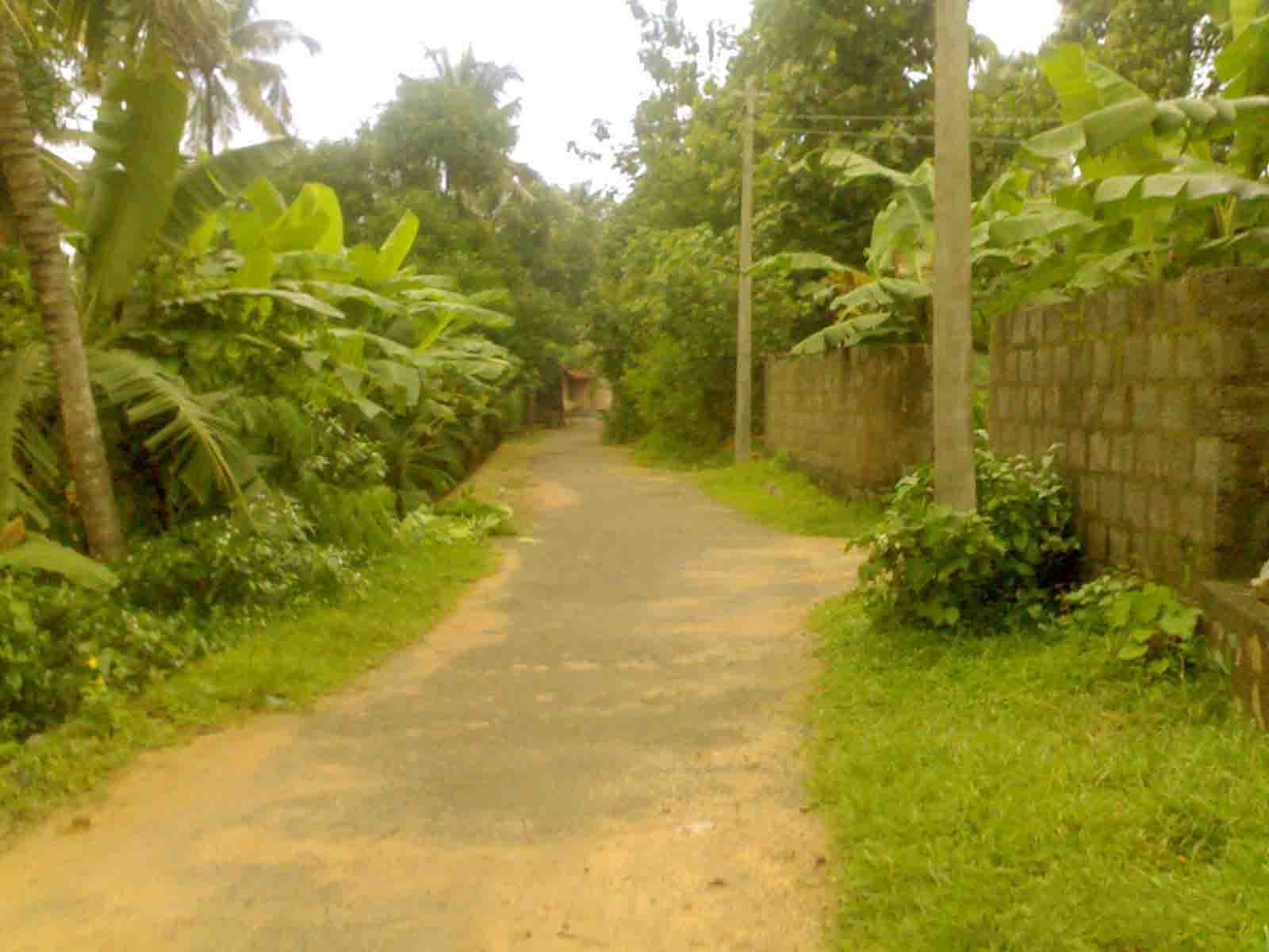 Pallapadam road, Kaprasery